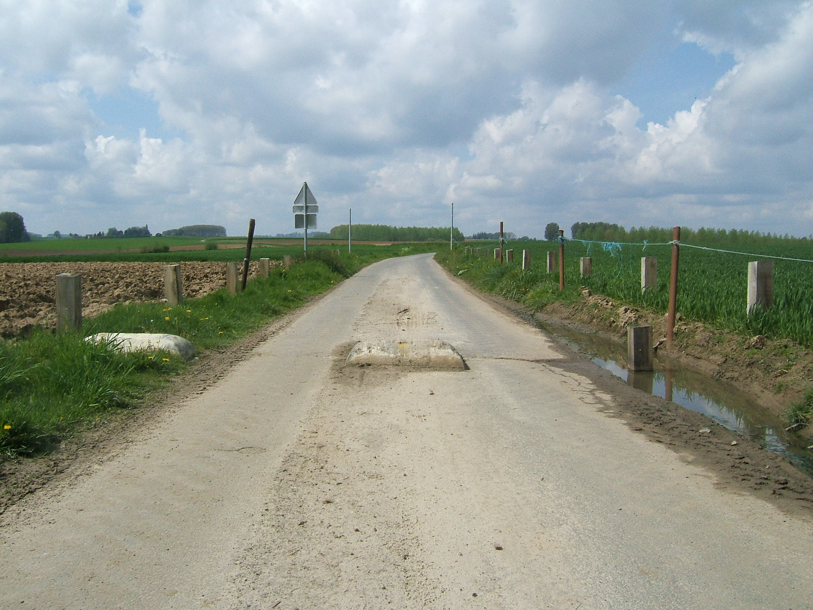 A concrete block on a rural road in Lennik, Belgium, to discourage its use by motor vehicles other than farm tractors which can pass over it.